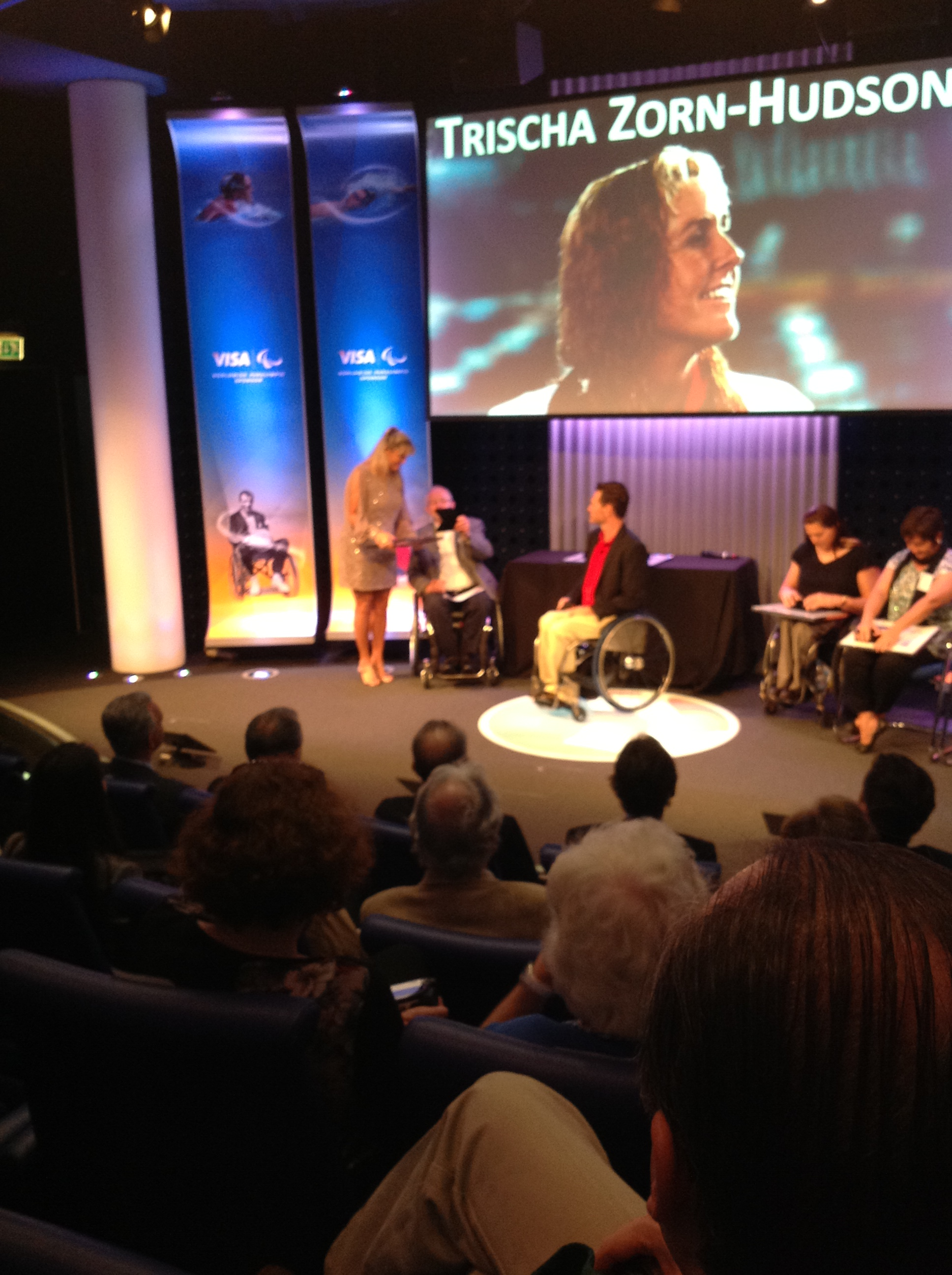 Picture from off Olympic venue taken at BT Centre of the IPC Hall of Fame induction ceremony.